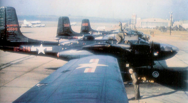 USAF B-26s during the Korean War.